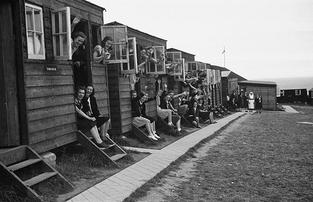 Teitl Cymraeg/Welsh title: Gwersyll yr Urdd yn Llangrannog, Awst 1940 Ffotograffydd/Photographer: Geoff Charles (1909-2002) Dyddiad/Date: August 1, 1940. Cyfrwng/Medium: Negydd ffilm / Film negative Cyfeiriad/Reference: (gcc02242) Rhif cofnod / Record no.: 3472375 Rhagor o wybodaeth am gasgliad Geoff Charles yn Llyfrgell Genedlaethol Cymru More information about the Geoff Charles Collection at the National Library of Wales Mae ffotograffau Geoff Charles hefyd yn rhan o Broject Europeana Libraries Geoff Charles' photographs also form part of the Europeana Libraries Project